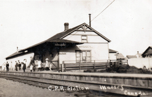 Photograph of the Canadian Pacific Railway station in Massey, Ontario, Canada, taken circa 1910.